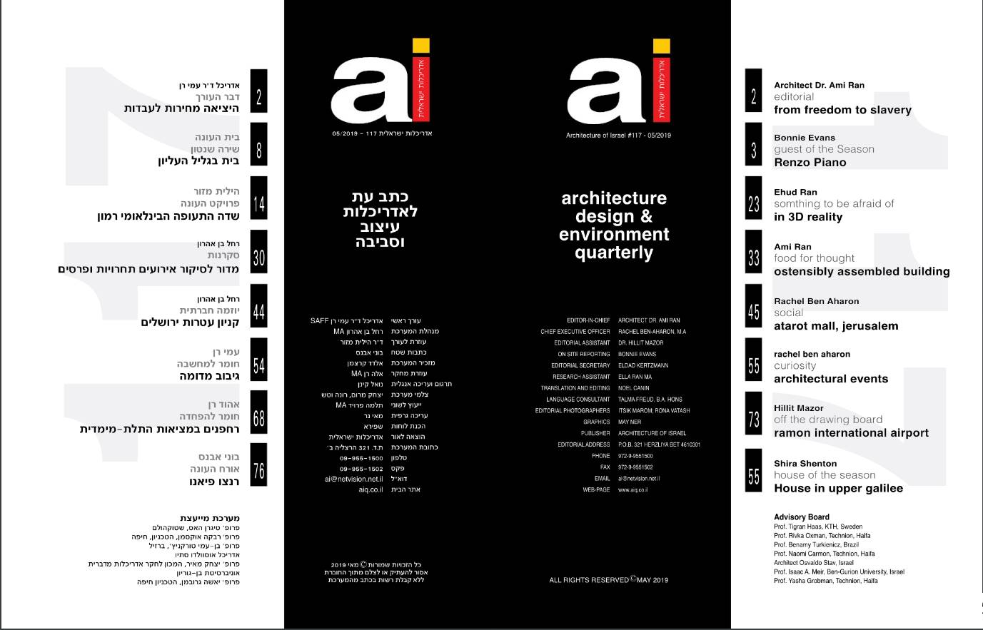 the content of issue 117 of "Architecture of Israel"